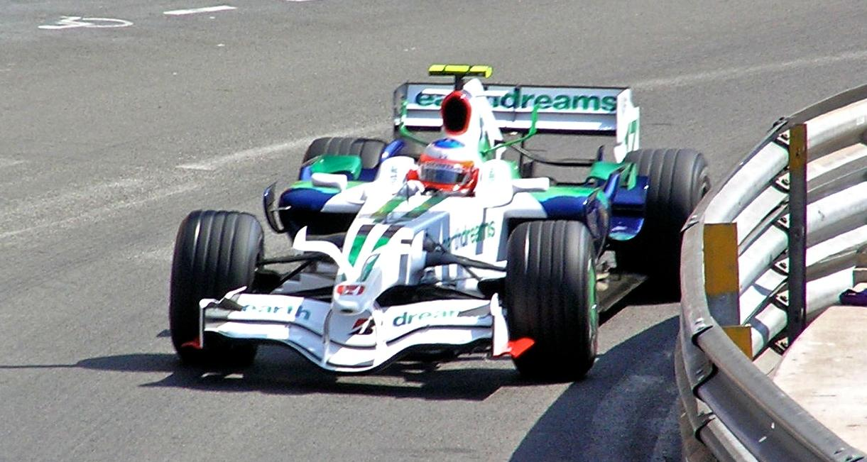 Rubens Barrichello driving for Honda F1 at the 2008 Monaco Grand Prix.